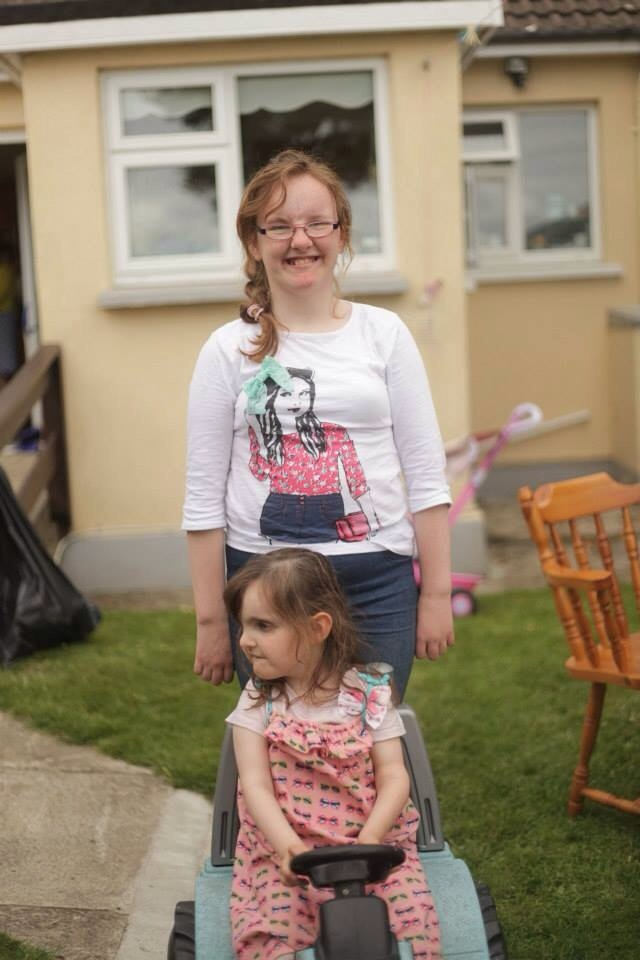 Two kids with dtm